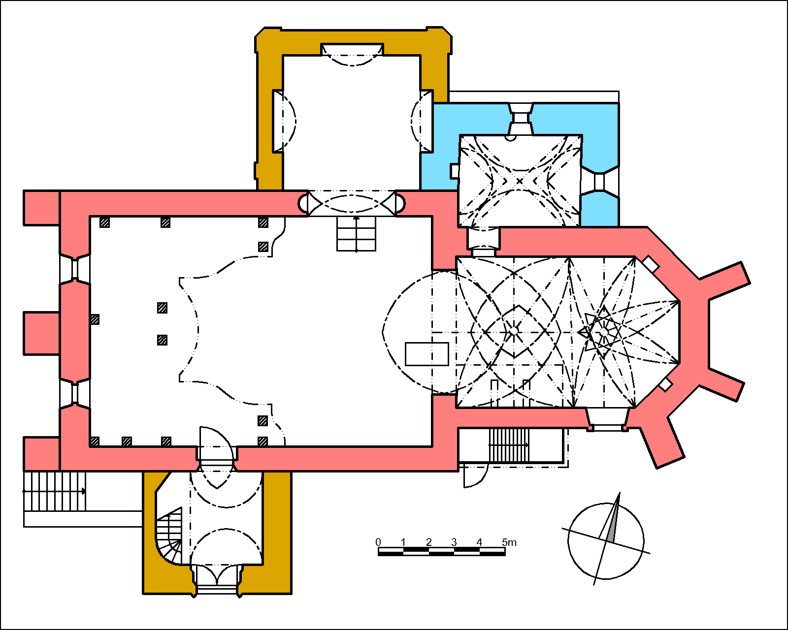 Church of the Assumption of the Virgin Mary in Kozlov, ground floor plan.